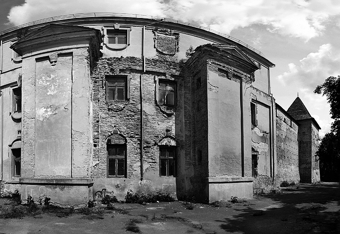 south facade of collegium